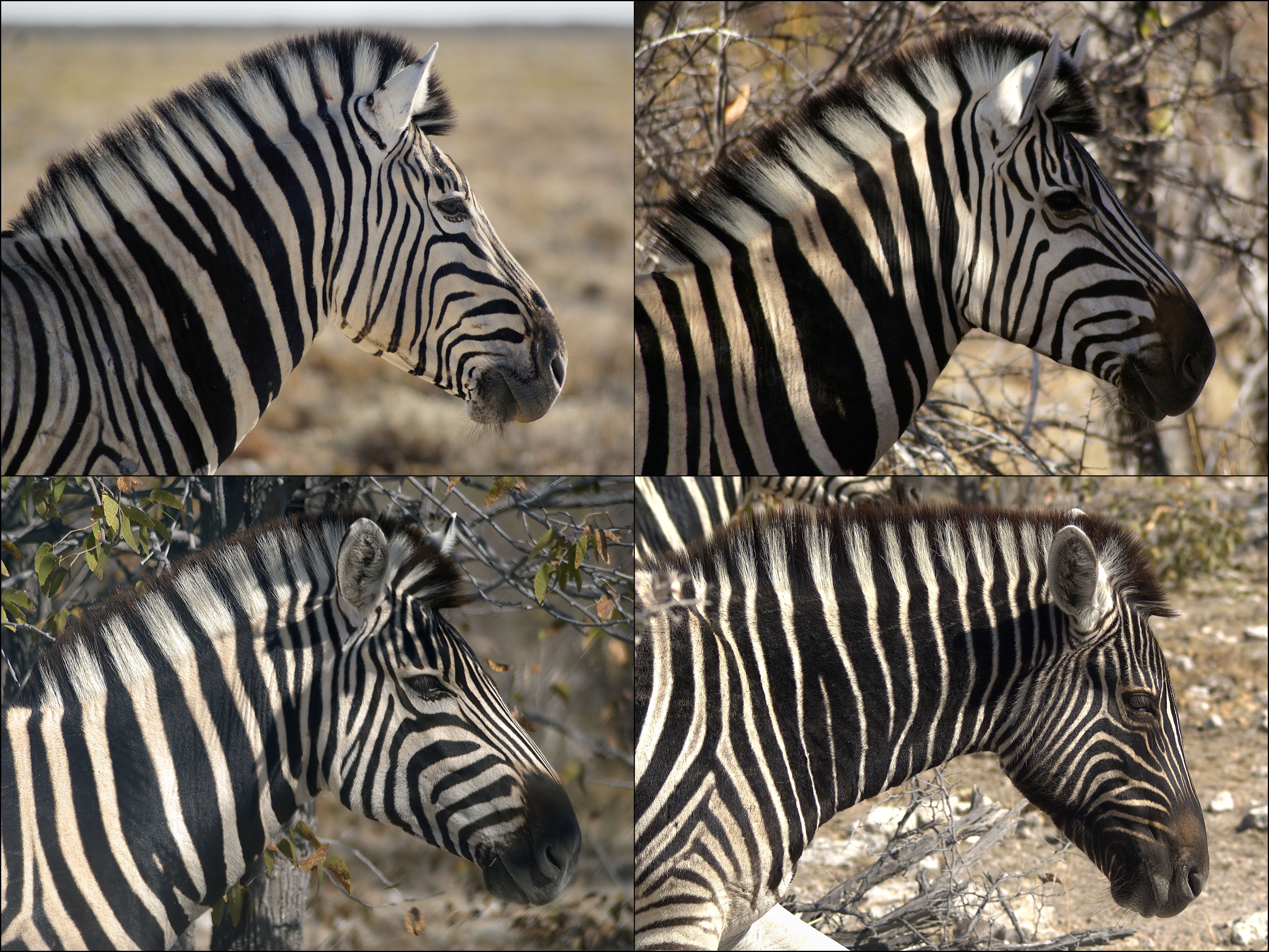 Variation in skin pattern in Damara Zebra at Etosha National Park, Namibia. The pattern show progressively more black left to right and top to bottom.